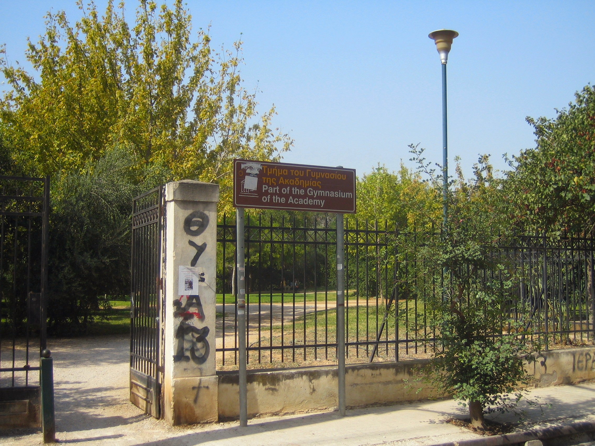 Entry to Plato's Academy Archaeological Site in Akadimia Platonos subdivision of Athens, Greece.